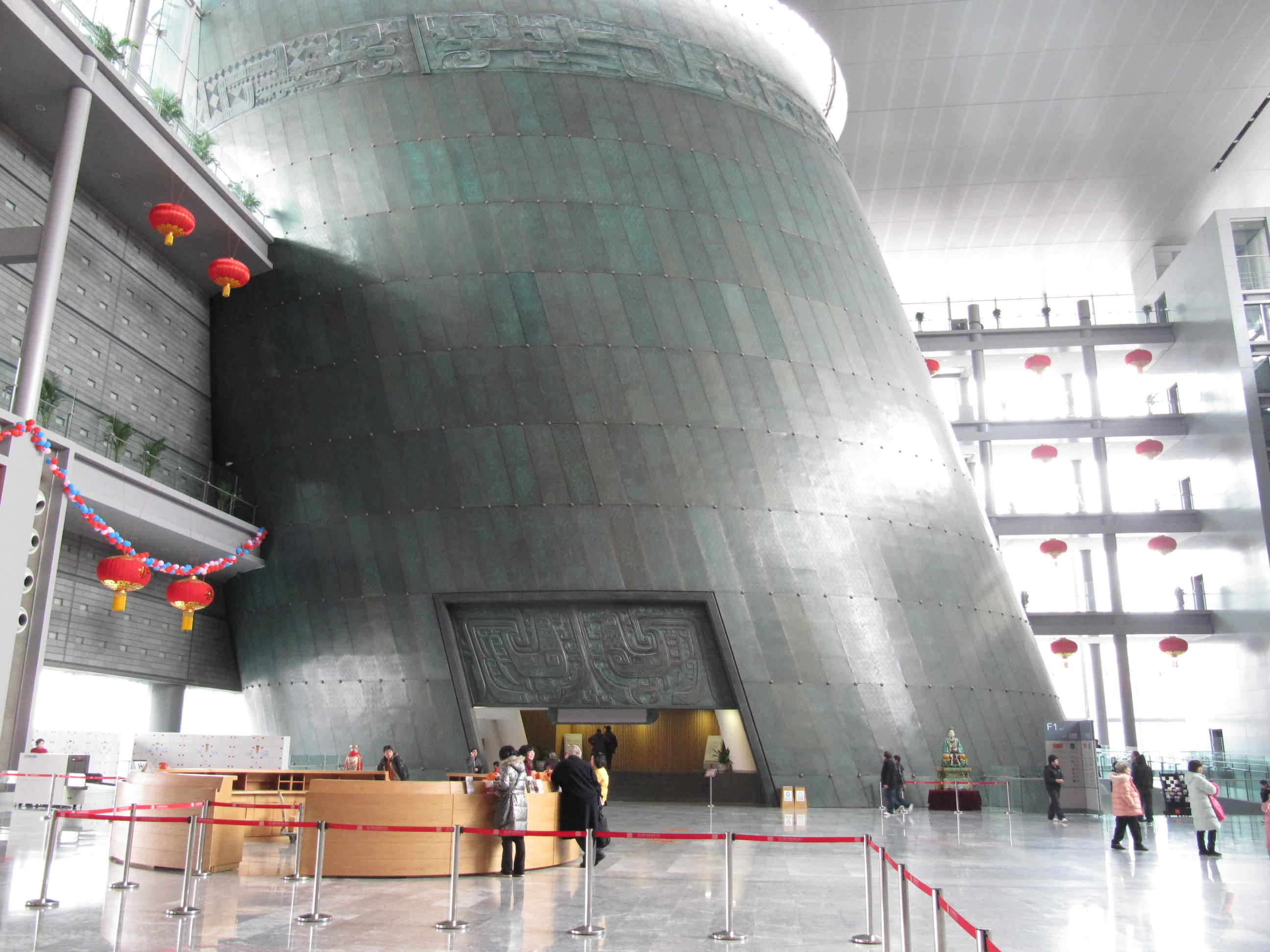 Chinese, Indian and Buddhist Art Capital Museum Beijing, Location: Beijing